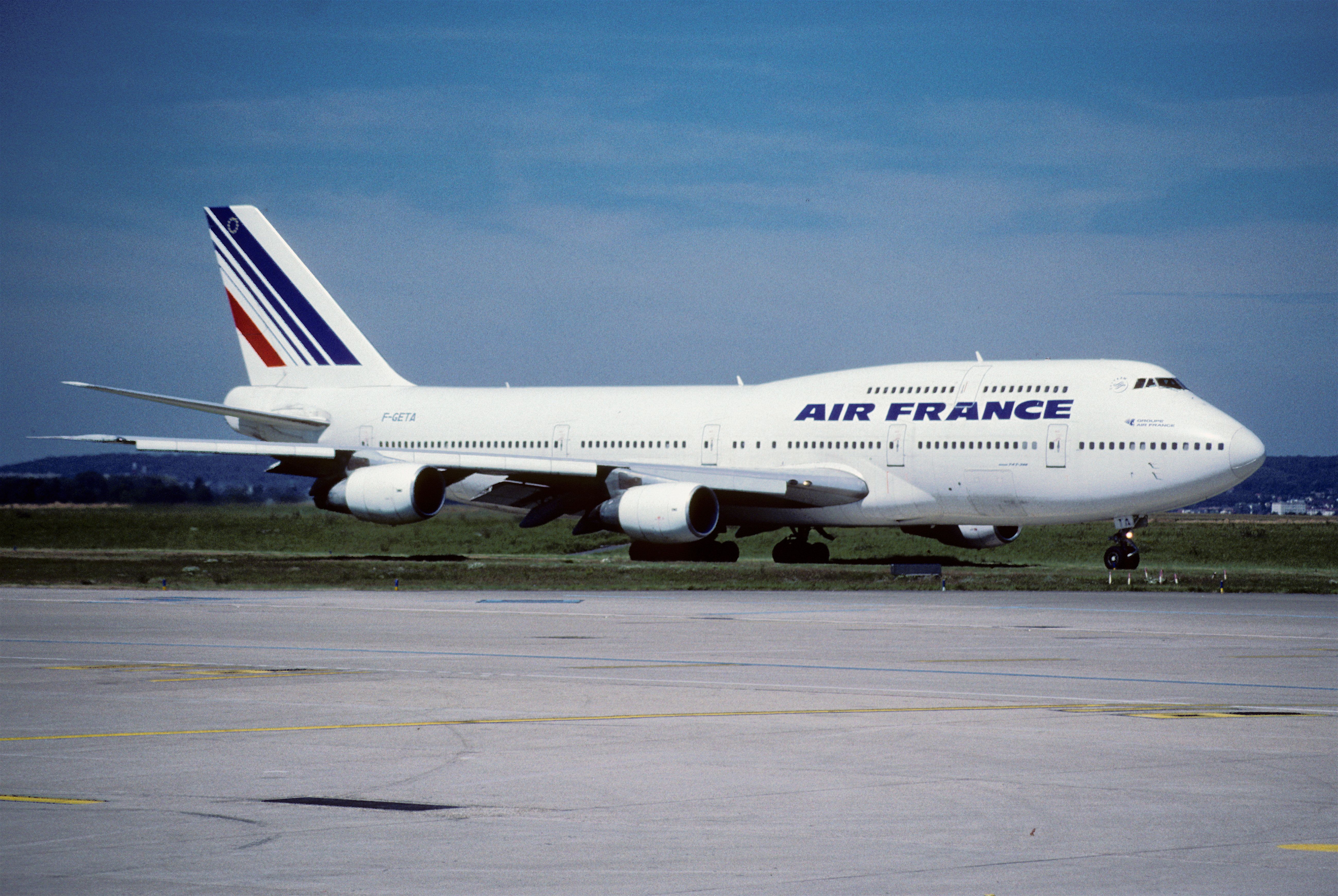 146az - Air France Boeing 747-300; F-GETA@ORY;12.08.2001